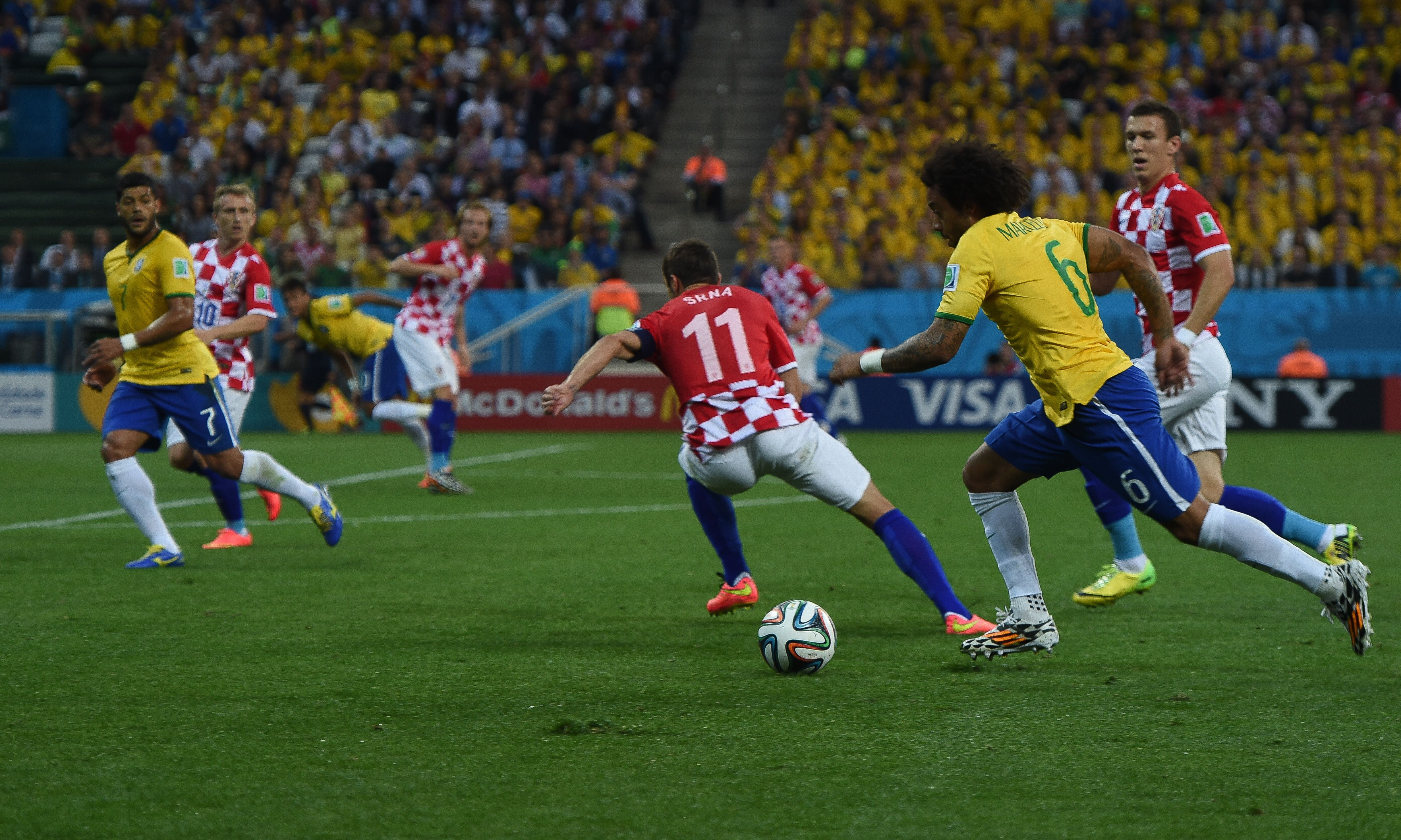 Brazil and Croatia match at the FIFA World Cup 2014-06-12